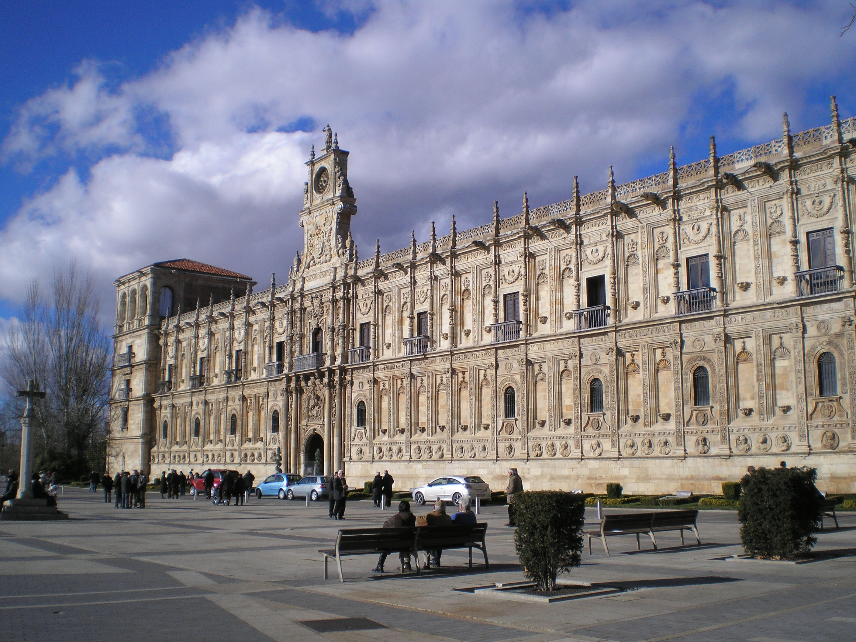 Convent-Hospital of San Marcos, León, Spain.